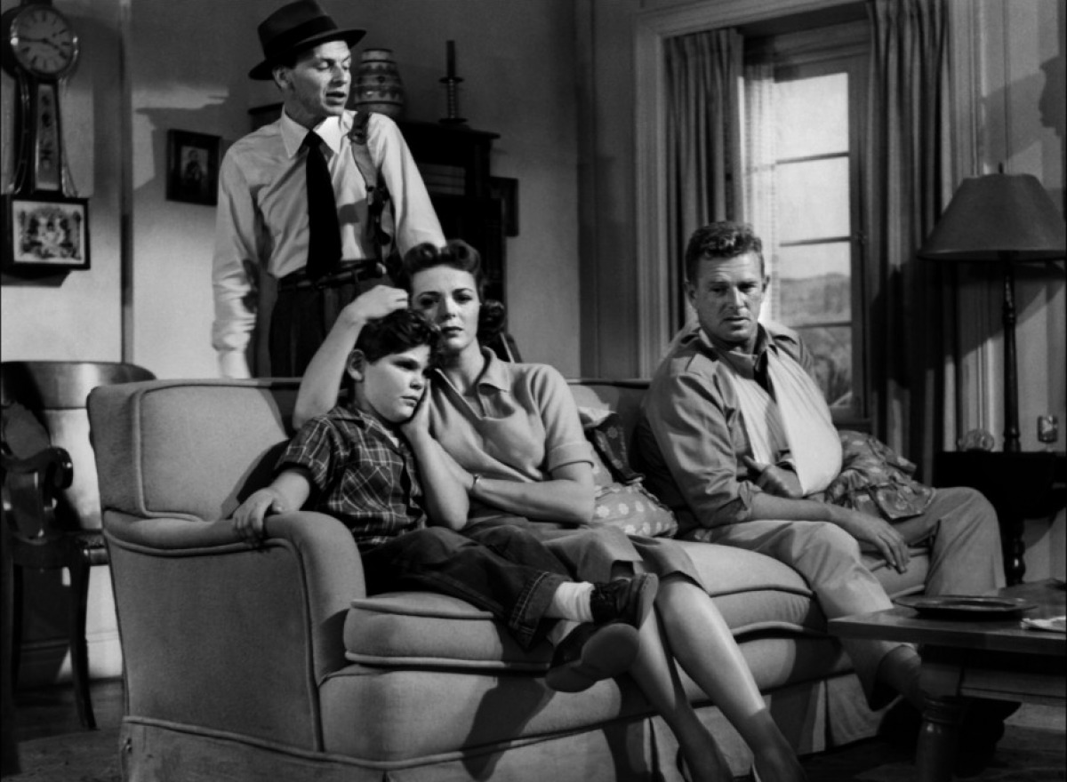 L. to R. : Frank Sinatra, Kim Charney, Nancy Gates & Sterling Hayden in Suddenly - cropped screenshot